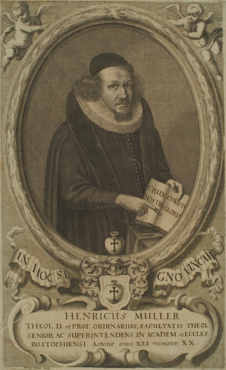 Portrait of Heinrich Müller, copper engraving 318x194 mm